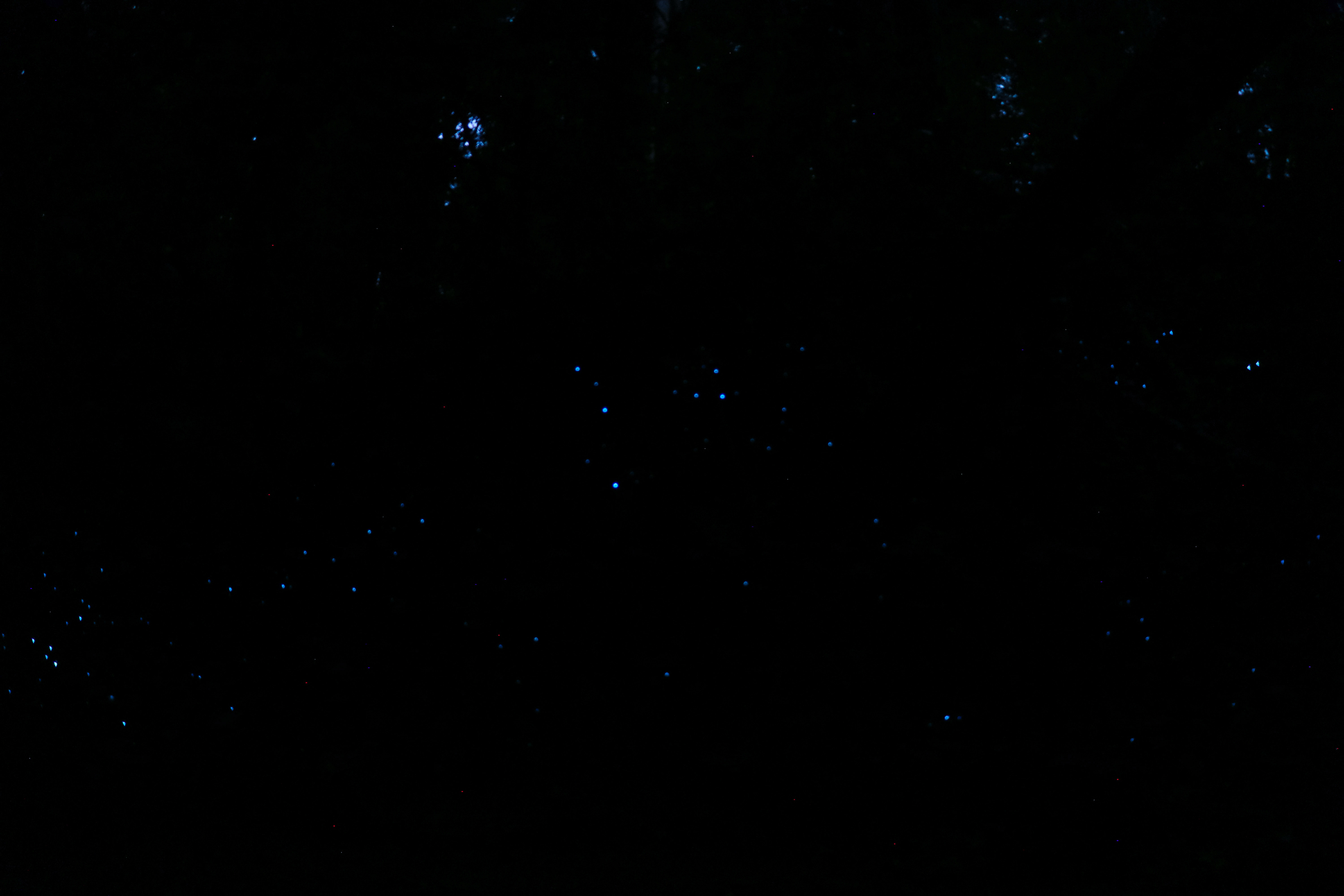 They are larvae of a mosquito species, Arachnocampa flava, a fungus gnat. Their larval stage has a blue luminescent glow, which helps them attract preys. The Arachnocampa genus are only found in Australia and New Zealand. Sadly, due to the increasing tourism in recent few years, their populations are shrinking. My tour guide told me that many tourists would use point light at them or use flash light when taking pictures, which is devastating to these larvae. The larvae will think the light is from their companions, so they will compete to glow brighter, so that they can attract more preys. But by doing that, they will use up all energy and can’t survive to the adult stage. They usually die three days after strong light. Strong moonlight kills them too, which was the case the day I went. I wasn’t able to see a full cave of glowing worms as you would find in other pictures online. However, the view was still spectacular.